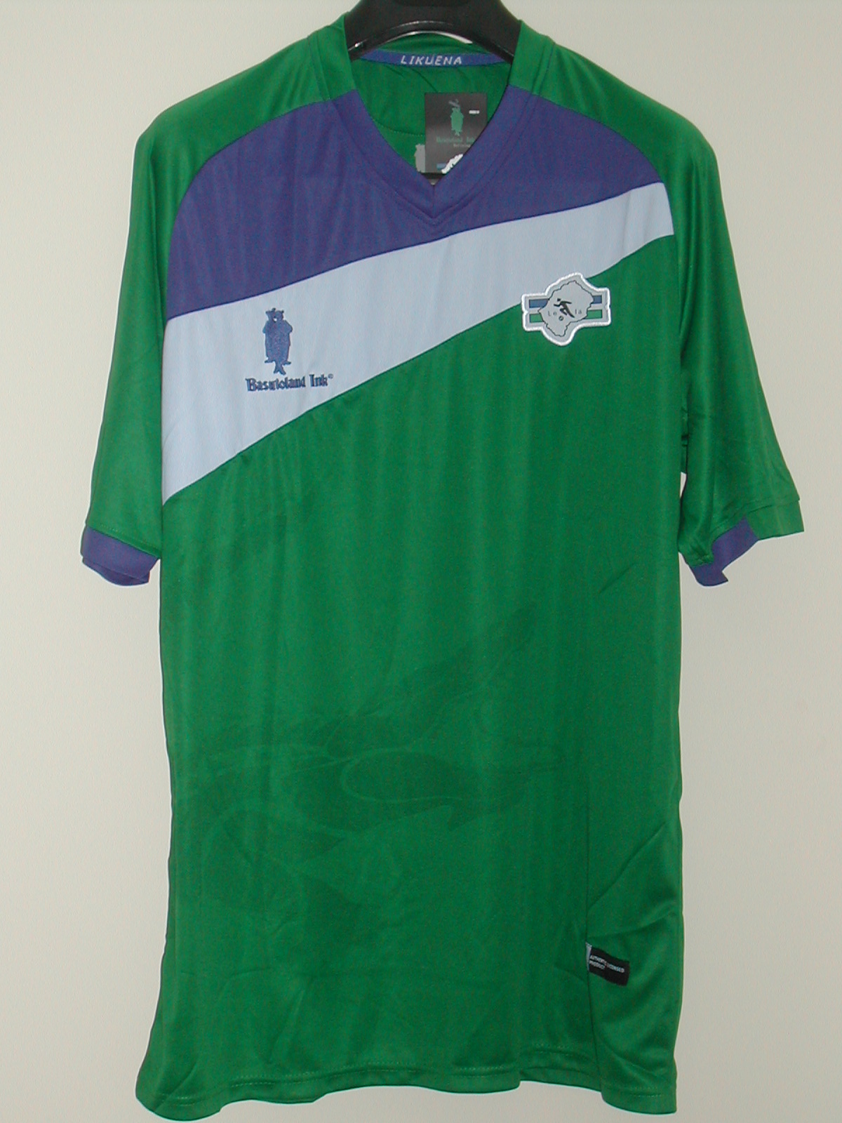 Official Lesotho home shirt from 2012 made by Basutoland Ink.